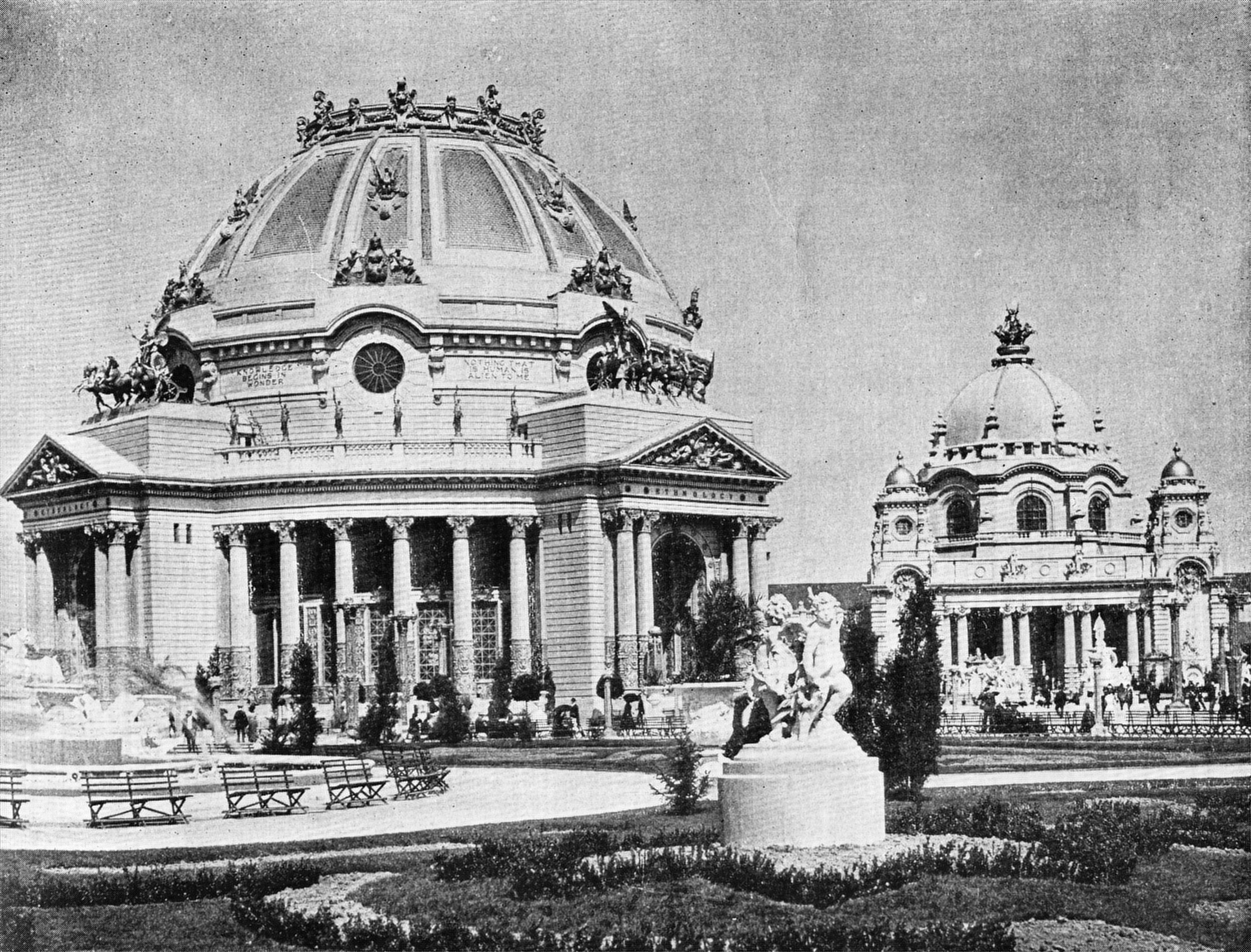 Original caption: "Ethnology and Government Buildings - The Ethnology Building is classic in outline with Renaissance decorative treatment. While it corresponds in form with the Temple of Music, across the Court of Fountains, it has a distinct character of its own. The building has a dome resembling that of the Pantheon at Rome. The architect is Mr. George Cary."